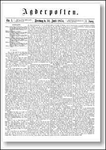 The front page of the norwegian newspaper Agderposten from the 1st of july 1874.